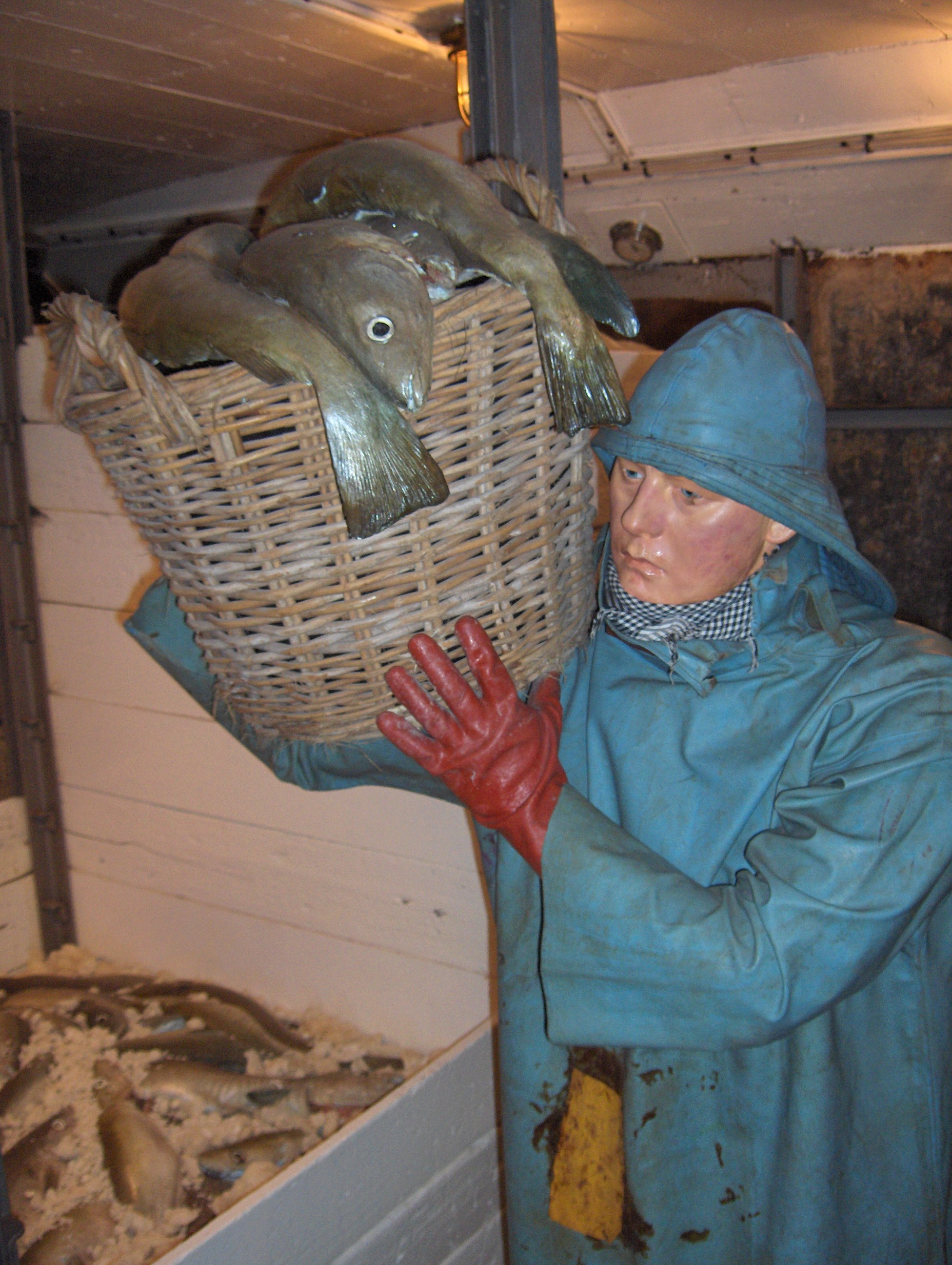 Fish is brought in in a fish basket - the O129.Amandine is a former trawler fishing in Icelandic waters. It now has become a maritime museum in Oostende, Belgium